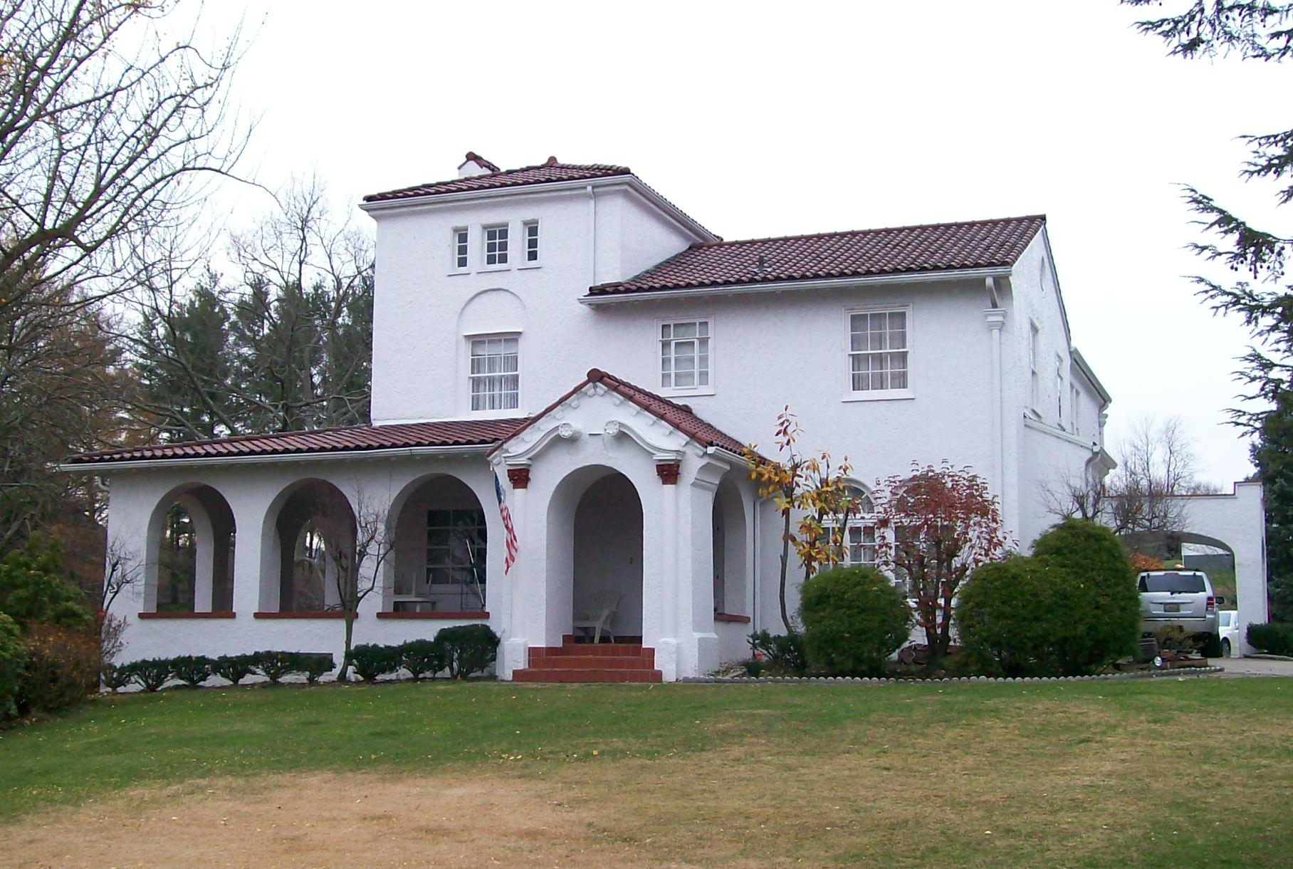 Belleview Heights in Bellaire, Ohio. The house is also known as Rigas House, due to its current owner.